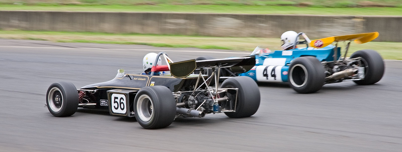 The 1974 Elfin 622 of Mark Goldsmith (No 56) and the 1971 Brabham BT35 of Bryan Miller (No 44) at Eastern Creek Raceway on 28 November 2008.